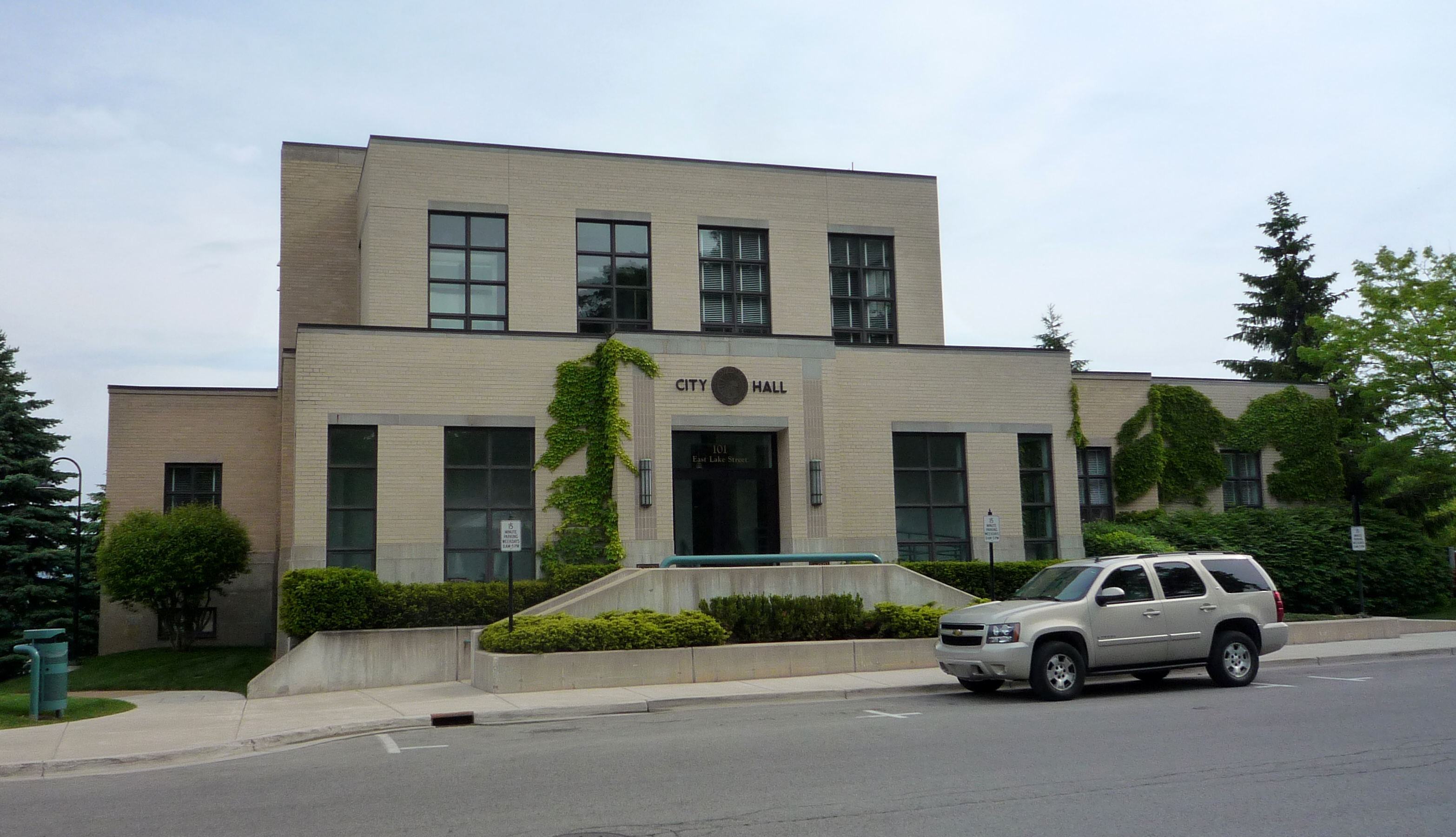 City Hall, Petoskey, Michigan, USA.